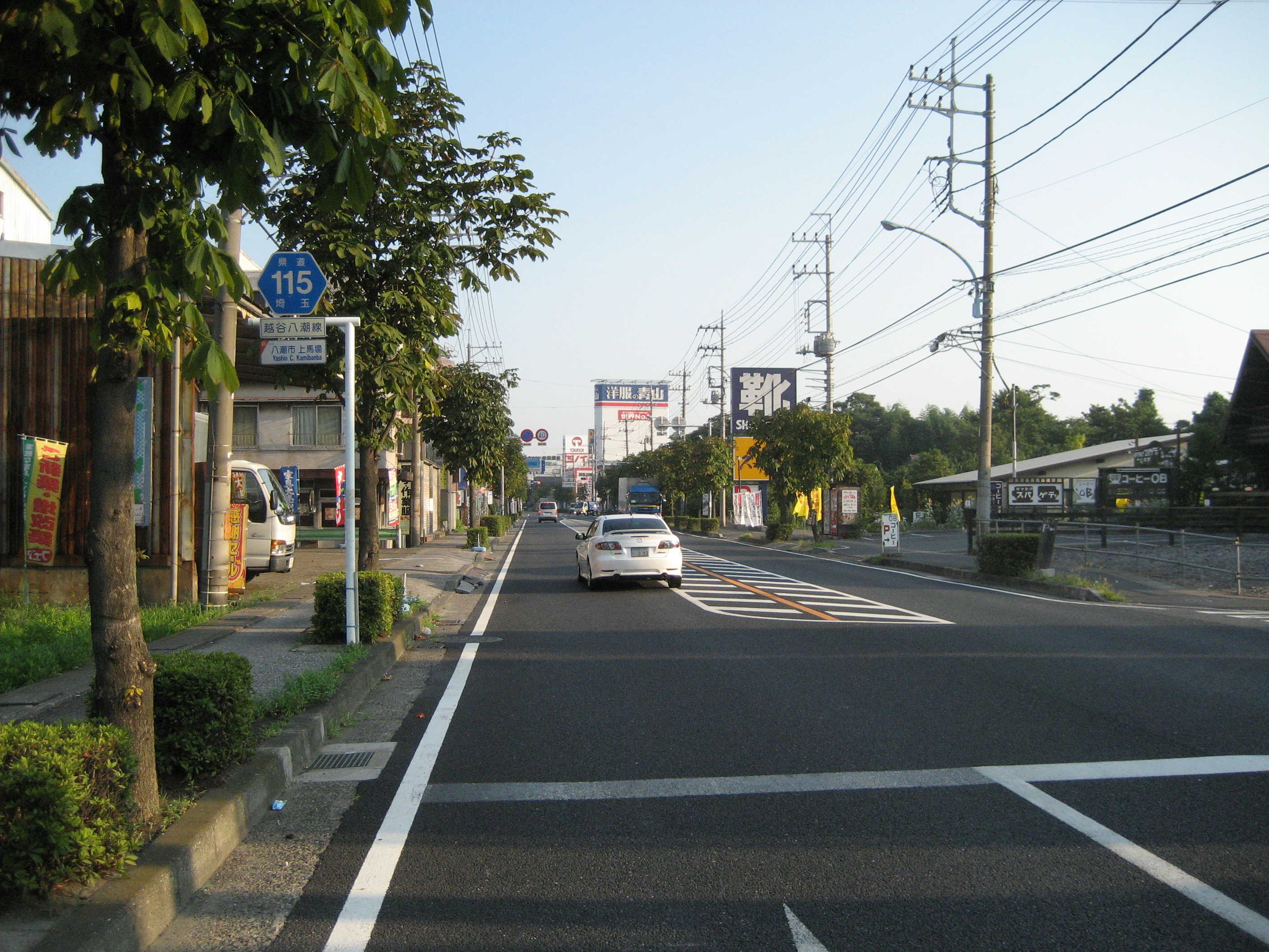 The Saitama Prefectural Road Route 115